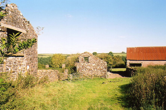 Oakford: Spurway Barton. Derelict outbuildings near a ruined farmhouse. A public footpath runs by. The Spurway family had settled here by 1244 and the property remained in the family's hands until well into the 20th century [Source: W G Hoskins, Devon, 1959, p.446]